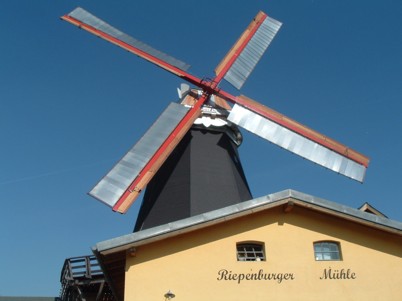 The Riepenburger Mühle, named "Boreas", in Hamburg-Kirchwerder, Germany, is the oldest windmill in the city of Hamburg. Build in 1828.